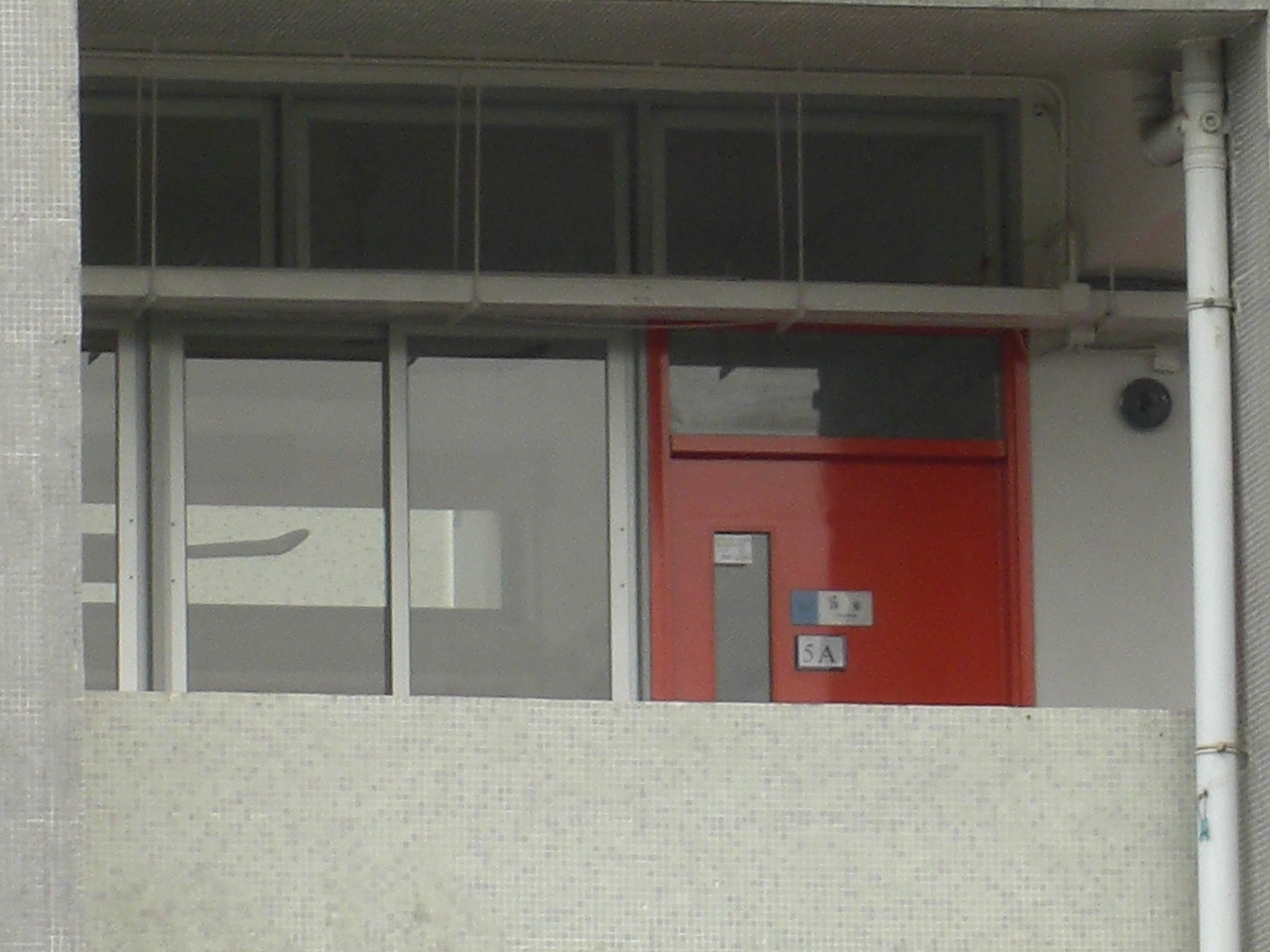 End school for The Christian Church in China(CCC) Fong Yun Wah Primary School classroom,photo at 2012/10